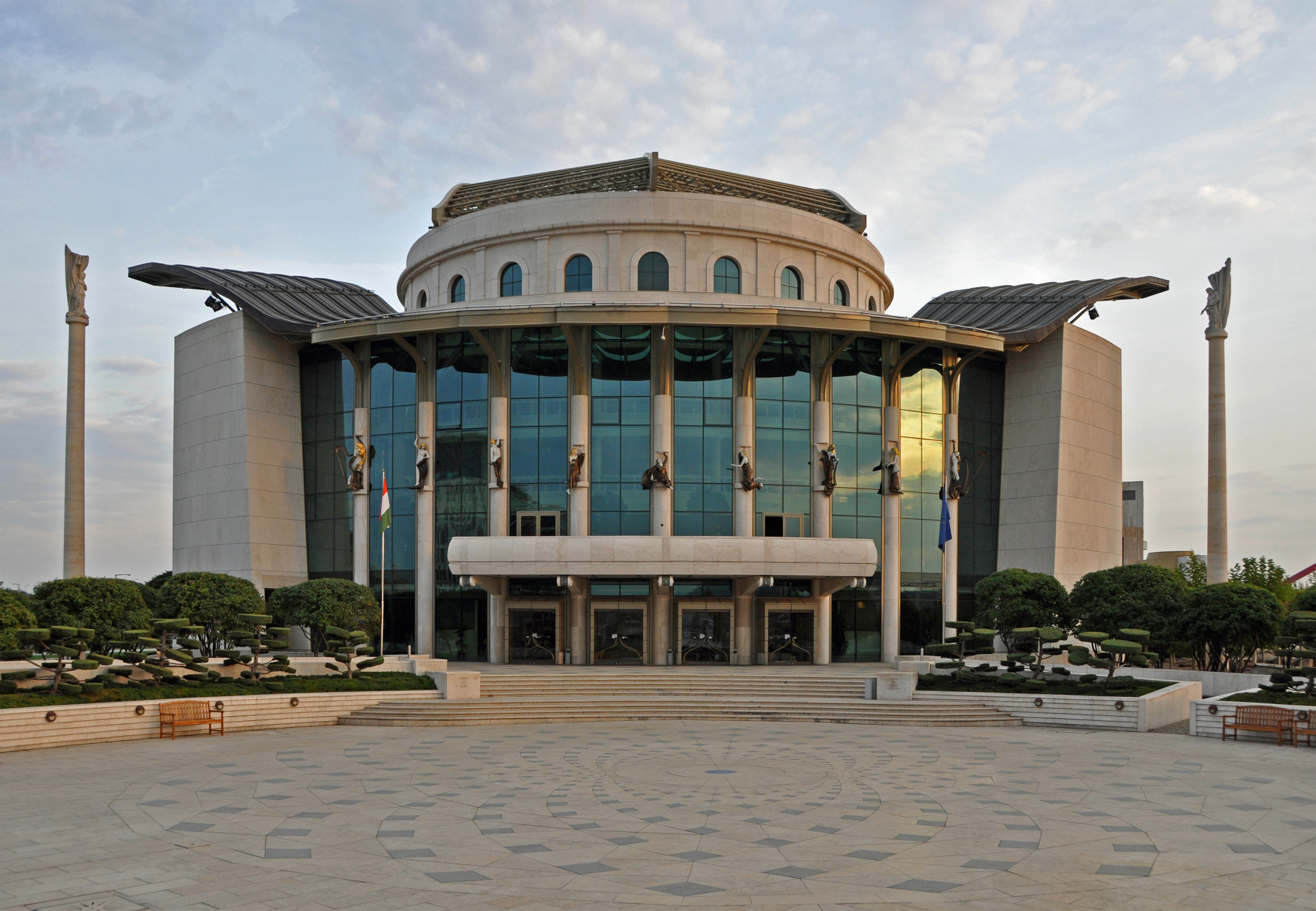 Budapest (Hungary): National Theatre